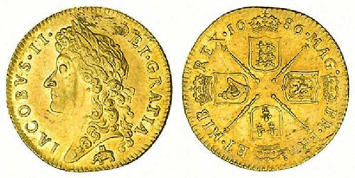 Image of gold coin of Great Britian, 1686 guinea, showing bust of James II with elephant and castle on obverse, coats of arms of Ireland, Scotland, England and Wales on reverse